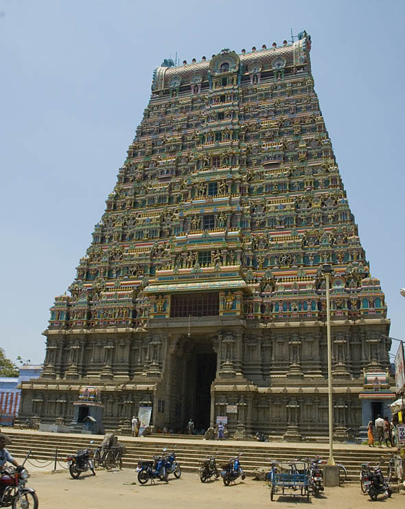 Shiva Temple at Tenkasi